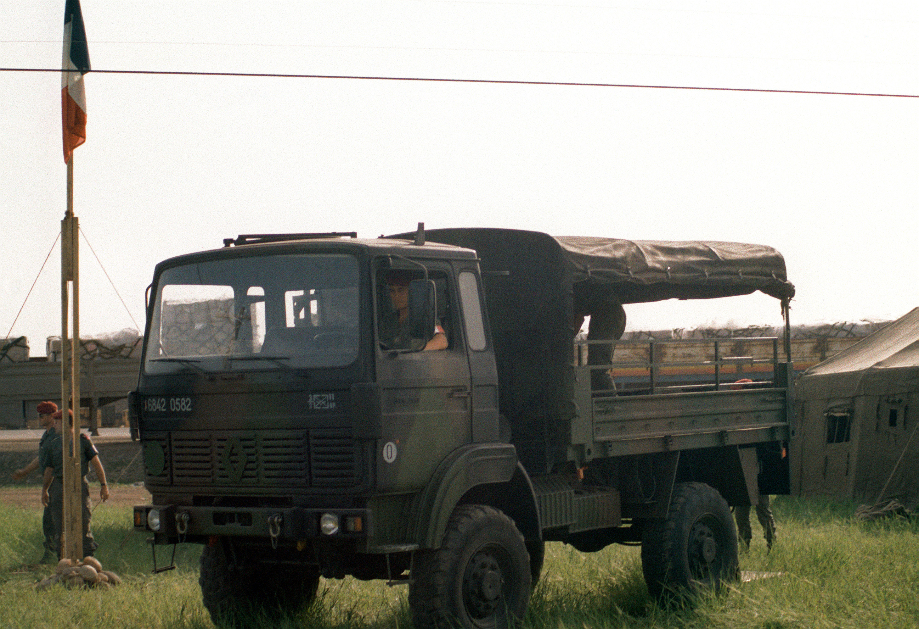 A French soldier sits in the cab of a Renault TRM 2000 4x4 truck after arriving at a camp outside the city. The soldier's unit has come to Zakhu as part of Operation Provide Comfort, a multinational effort to aid Kurdish refugees in southern Turkey and northern Iraq.